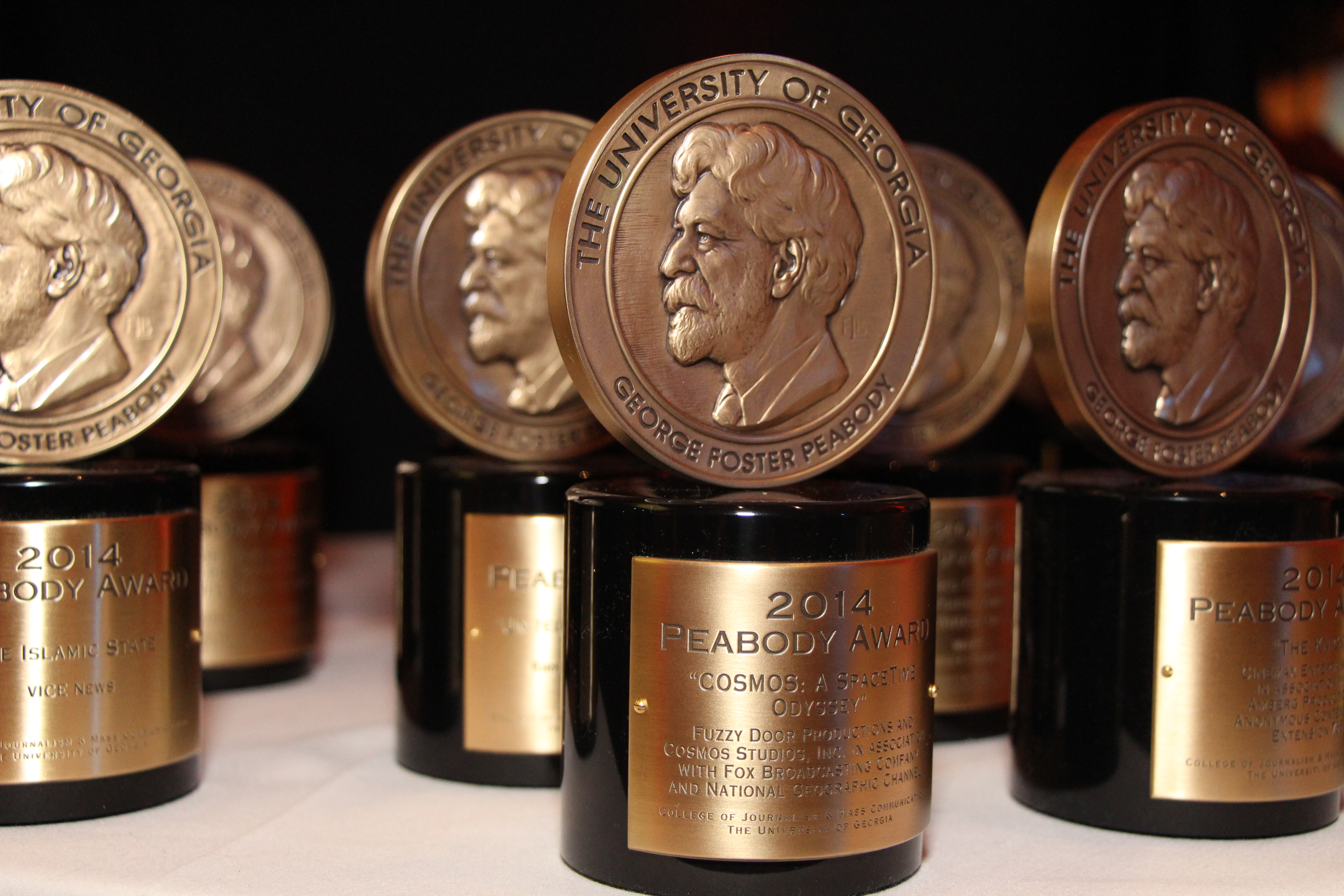 The 2014 statuettes were all lined up before the ceremony began. COMOS and Vice News were among the first to received their awards that night.